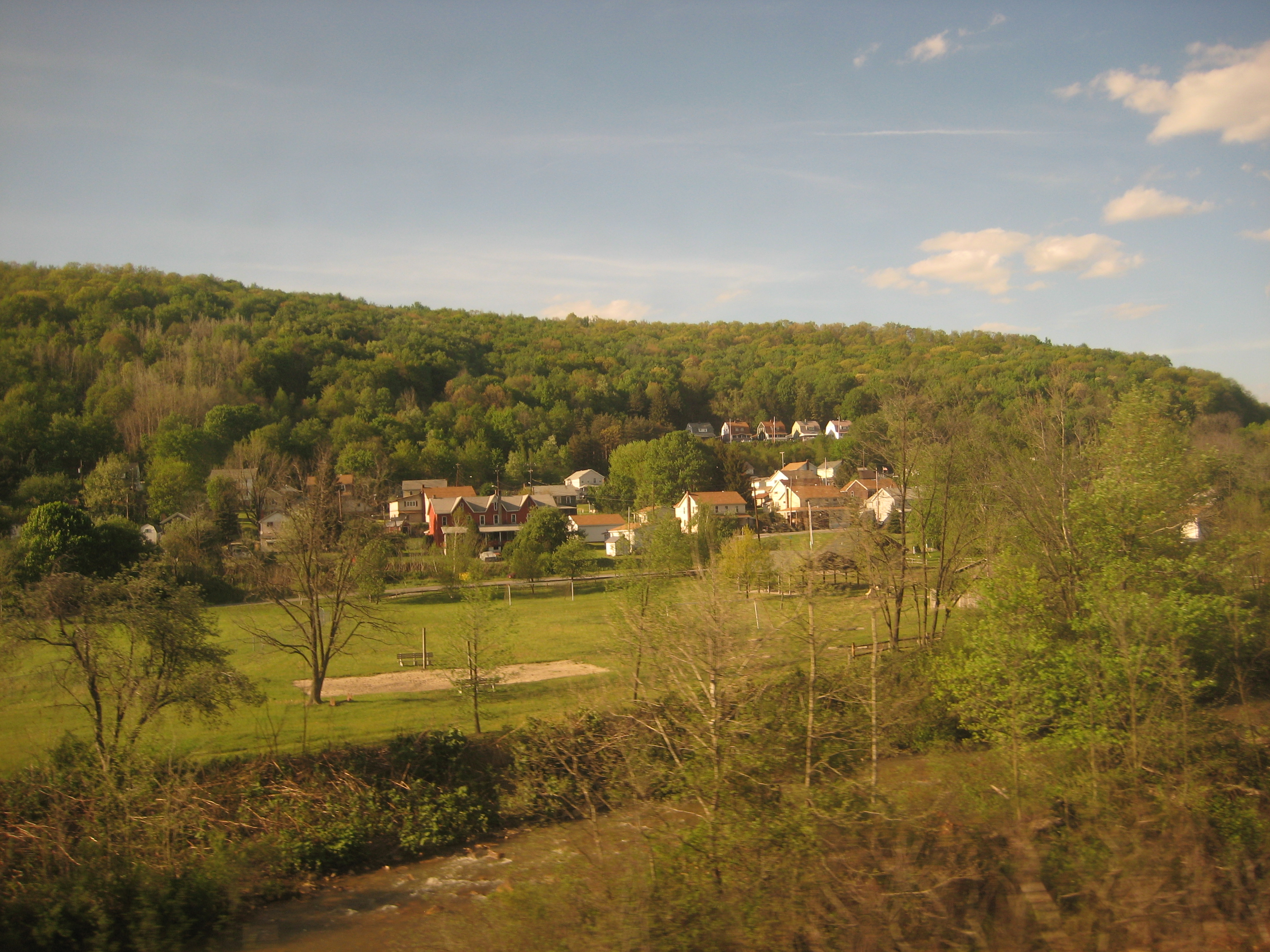 The town of Ehrenfeld, Pennsylvania, as seen from the Pennsylvanian.